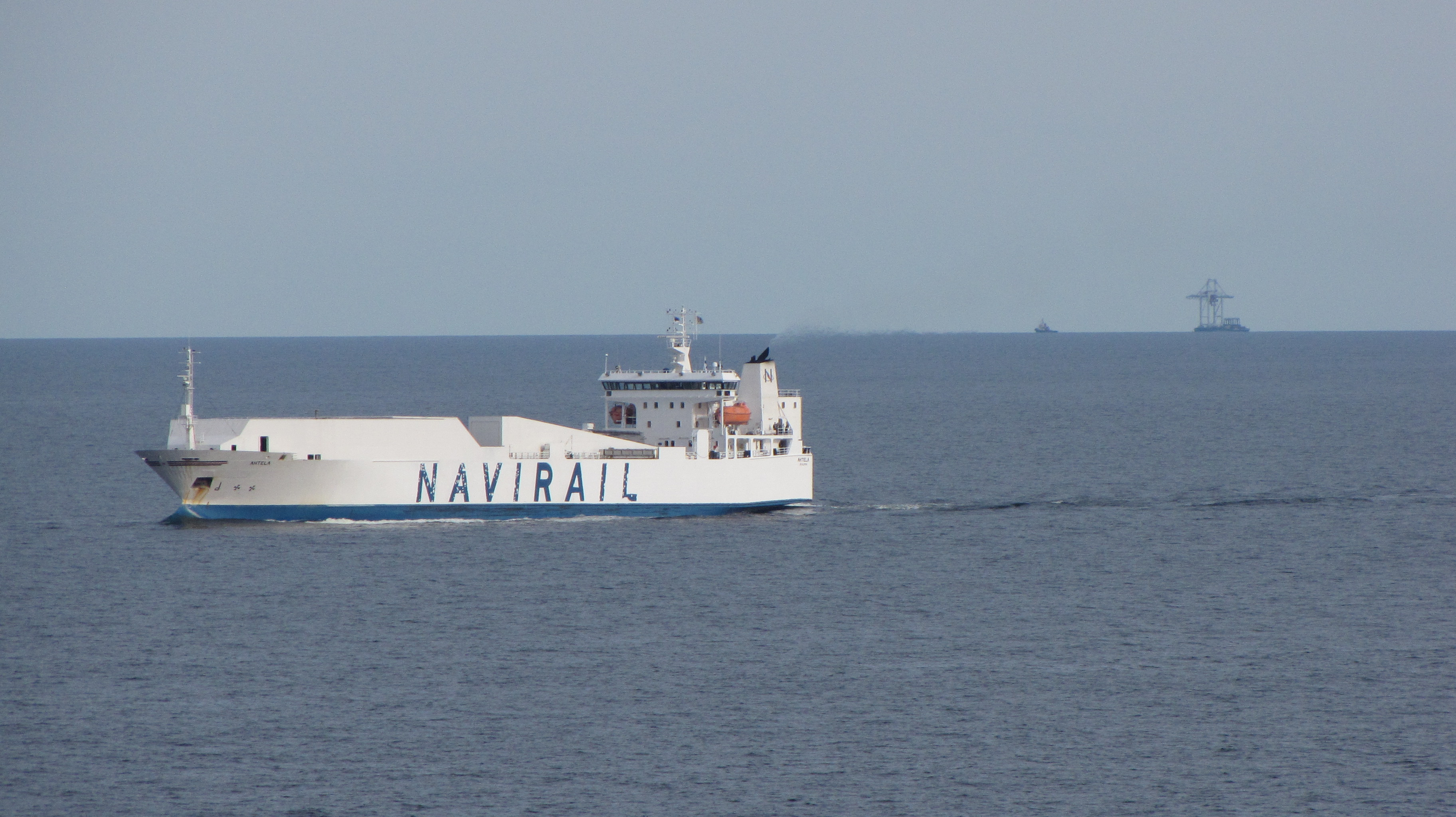 Finnish RoRo cargo ship M/S Ahtela on the Baltic Sea. IMO Number: 8911736 MMSI Number: 230217000 Callsign: OJDL Length: 140 m Beam: 19 m